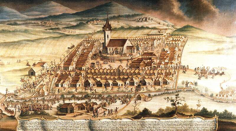 Rimavská Sobota in 1769